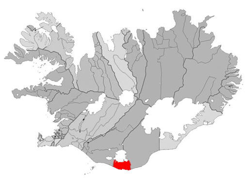 Based on Municipalities of Iceland.png.